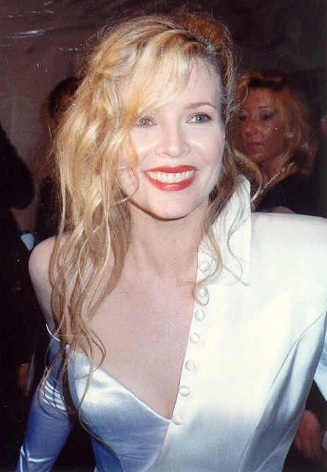 Photo of Kim Basinger at the Academy Awards.